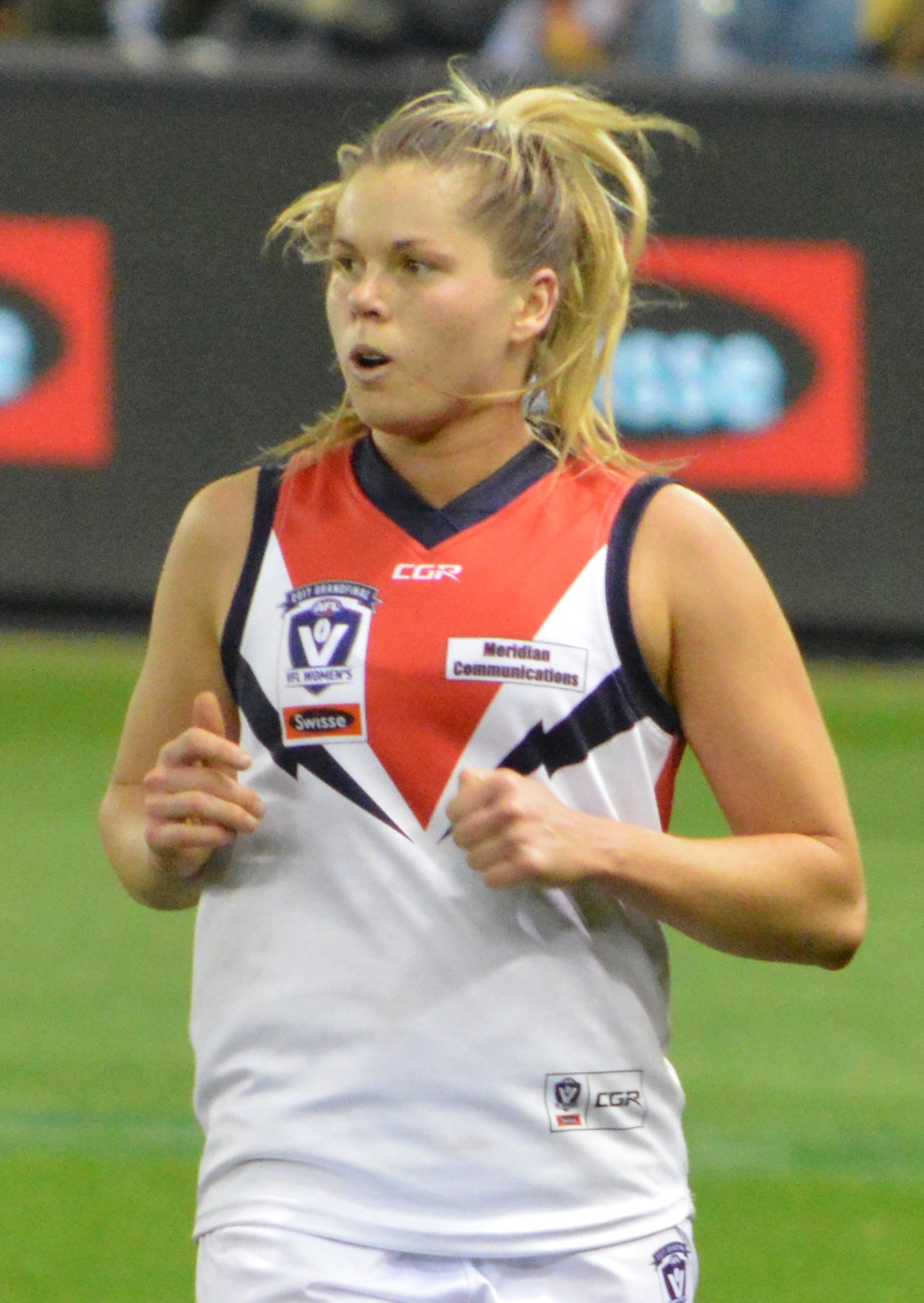 Katie Brennan during the 2017 VFL Women's Grand Final.